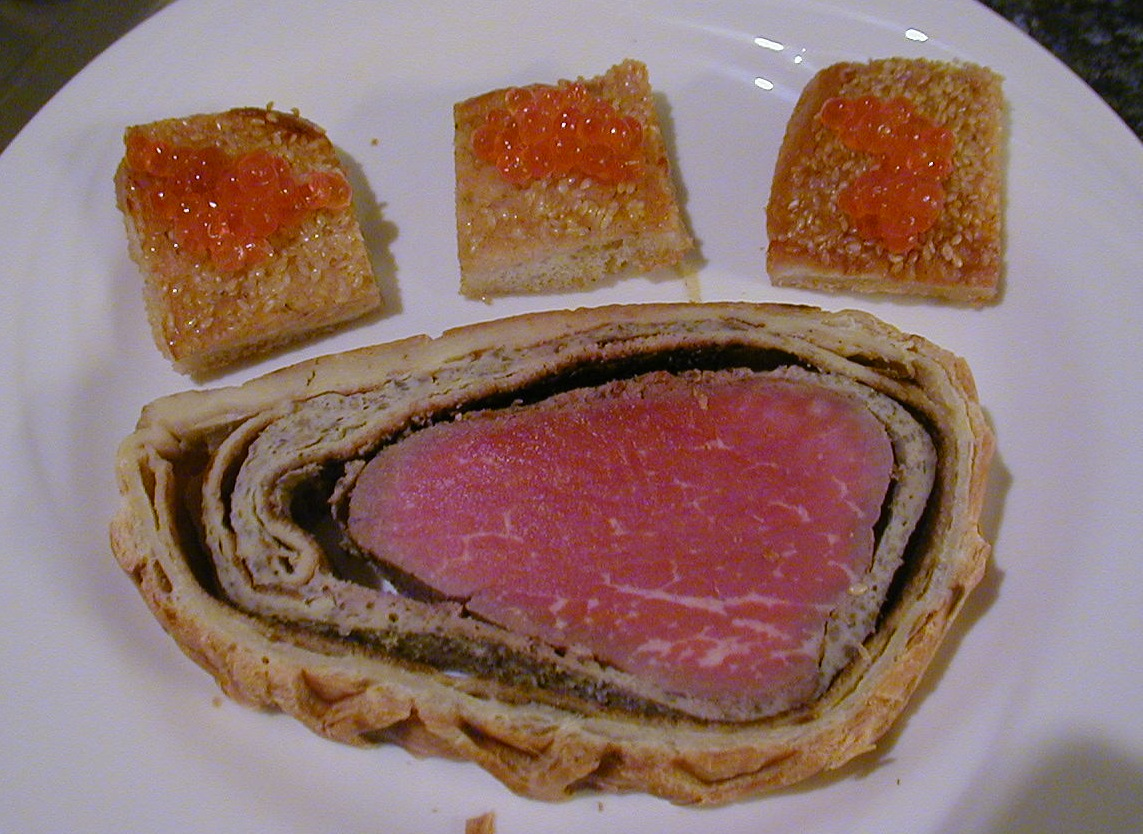 Beef Wellington from Harrod's Food Halls, London. Photograph made by Michael C. Berch (User:MCB) on 2005-01-20 and released under free license CC-BY-SA 2.5.